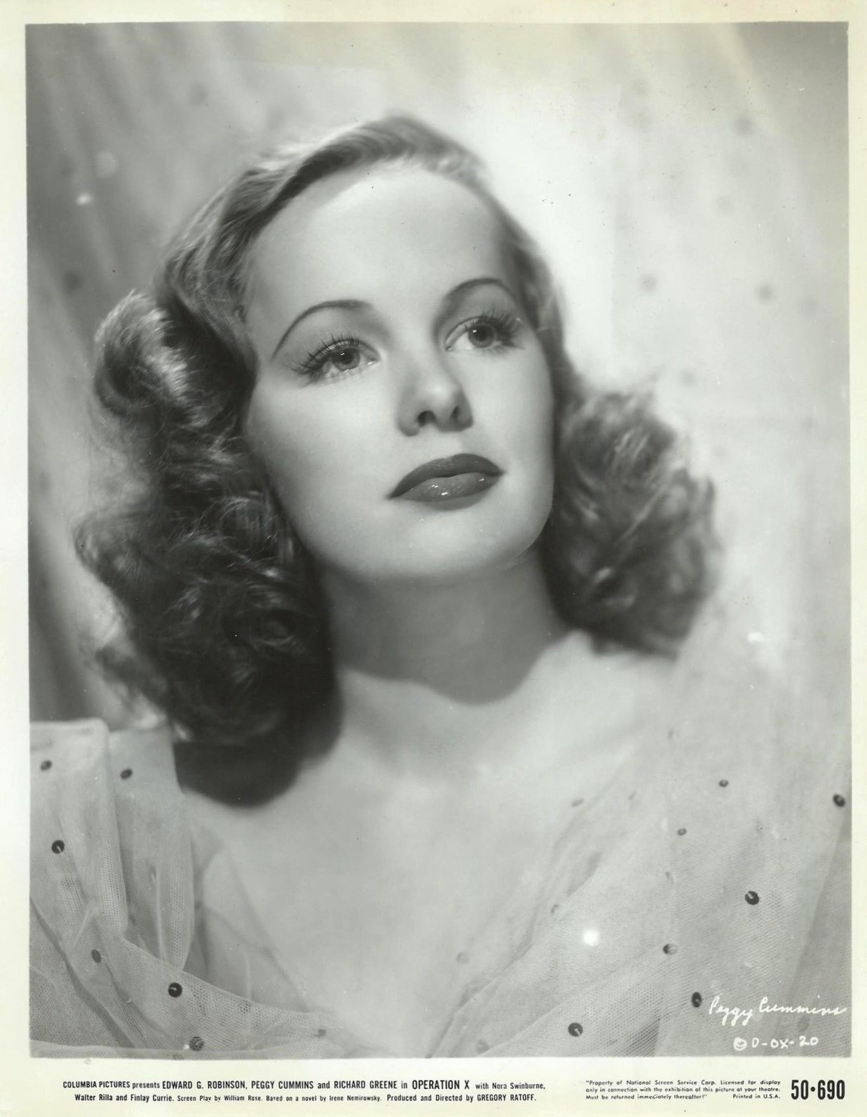 Peggy Cummins. Promotion photo for Operation X, later My Daughter Joy